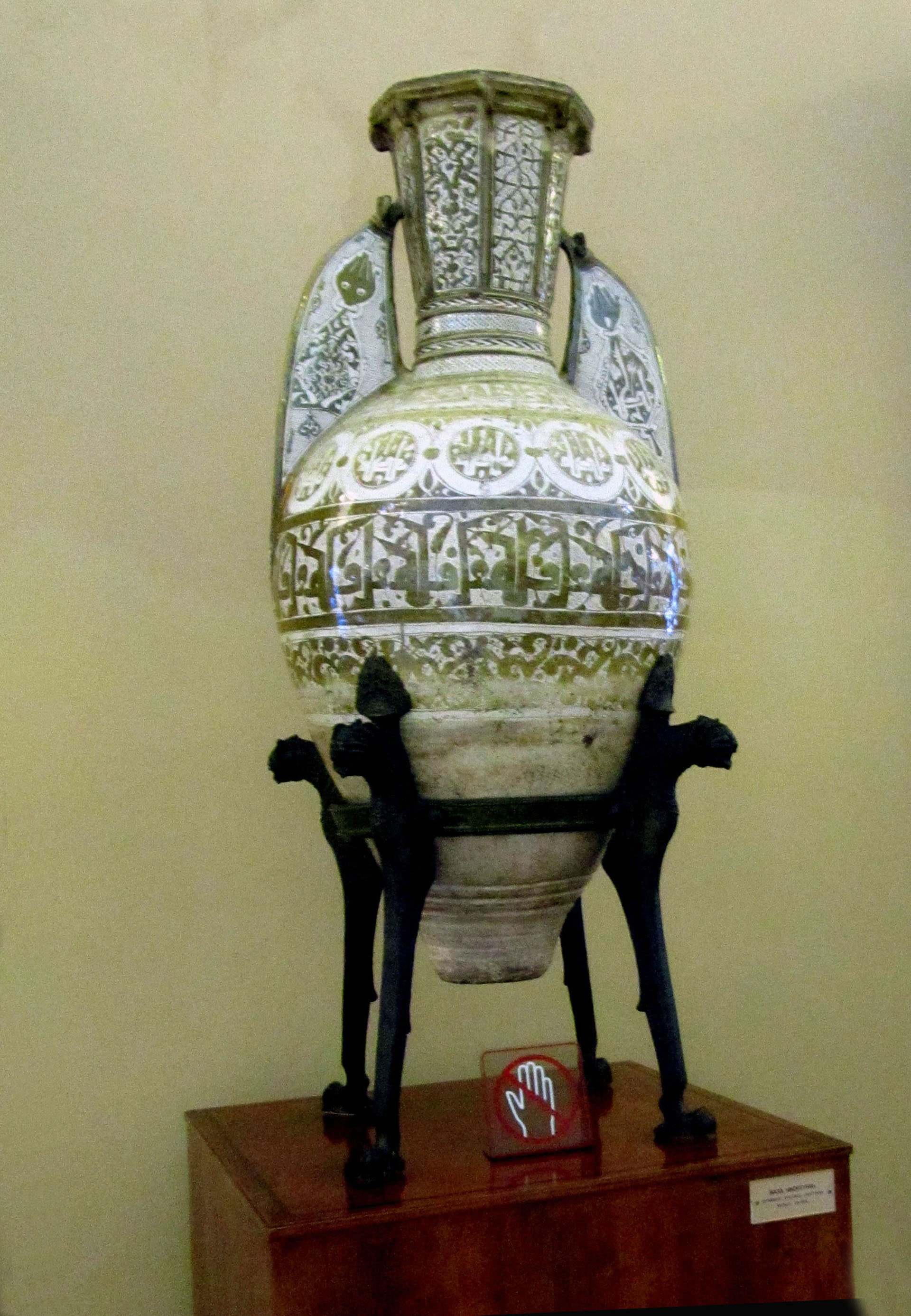 "Glass of Fortuny". Hispano-Moorish pottery with metallic sheen from Málaga (Spain). Fourteenth century. Hermitage Museum, St. Petersburg (Russia). The iron bracket was designed by the Spanish painter Mariano Fortuny.